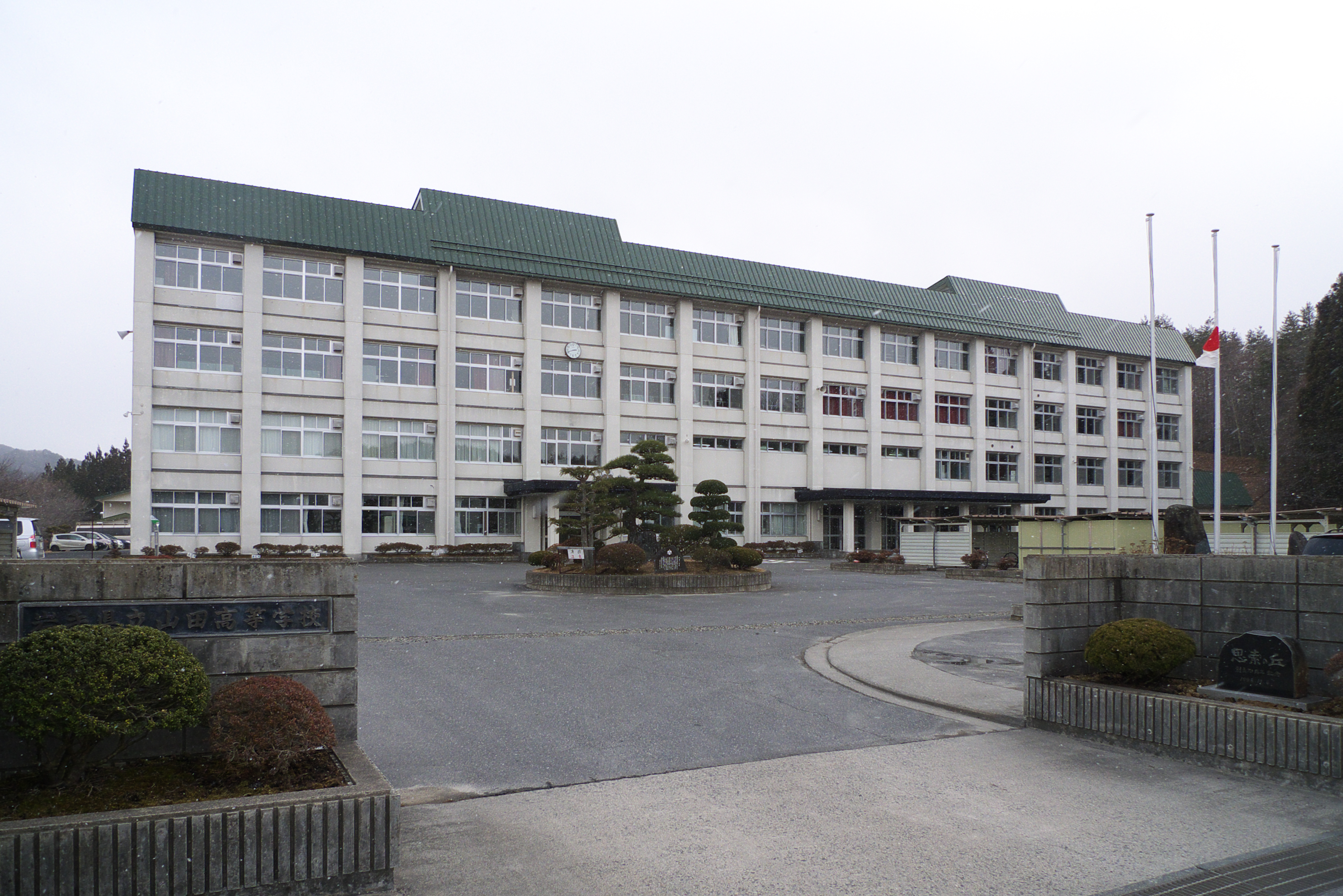 Iwate Prefectural Yamada High School in Yamada Town, Iwate Prefecture, Japan